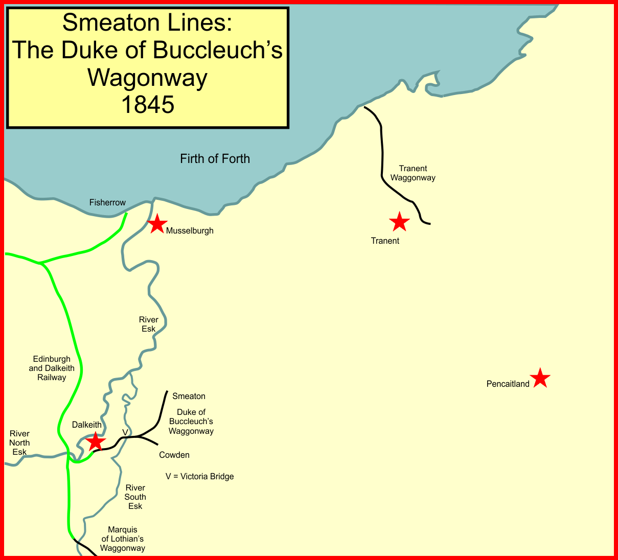 System map of railways around Dalkeith and Smeaton, Scotland, in 1845